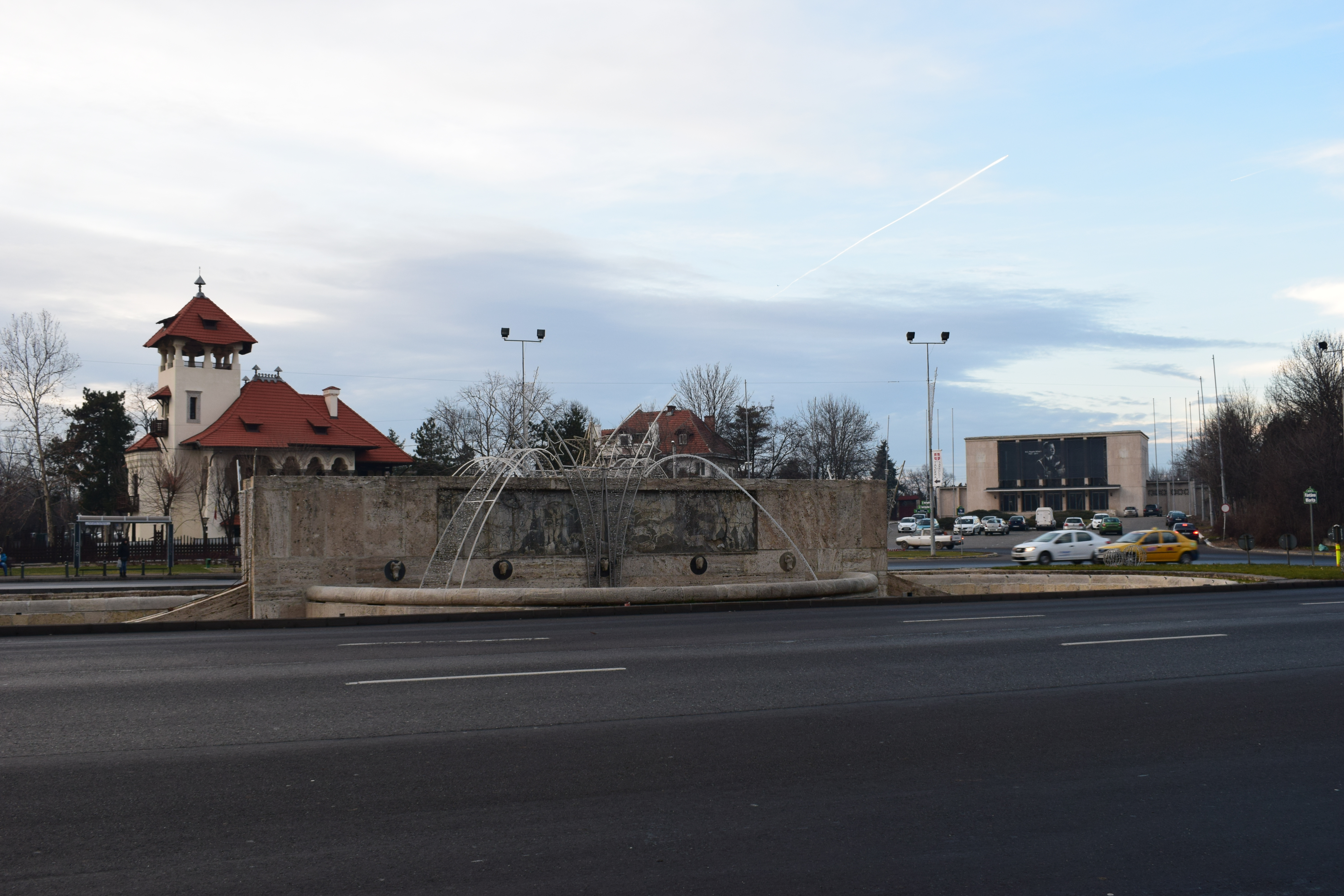 A general view of the Minovici Villa (left), Miorița Fountain (center - adorned with Christmas decorations) and Băneasa Royal Railway Station, covered with a funeral photograph of HM King Michael I of Romania